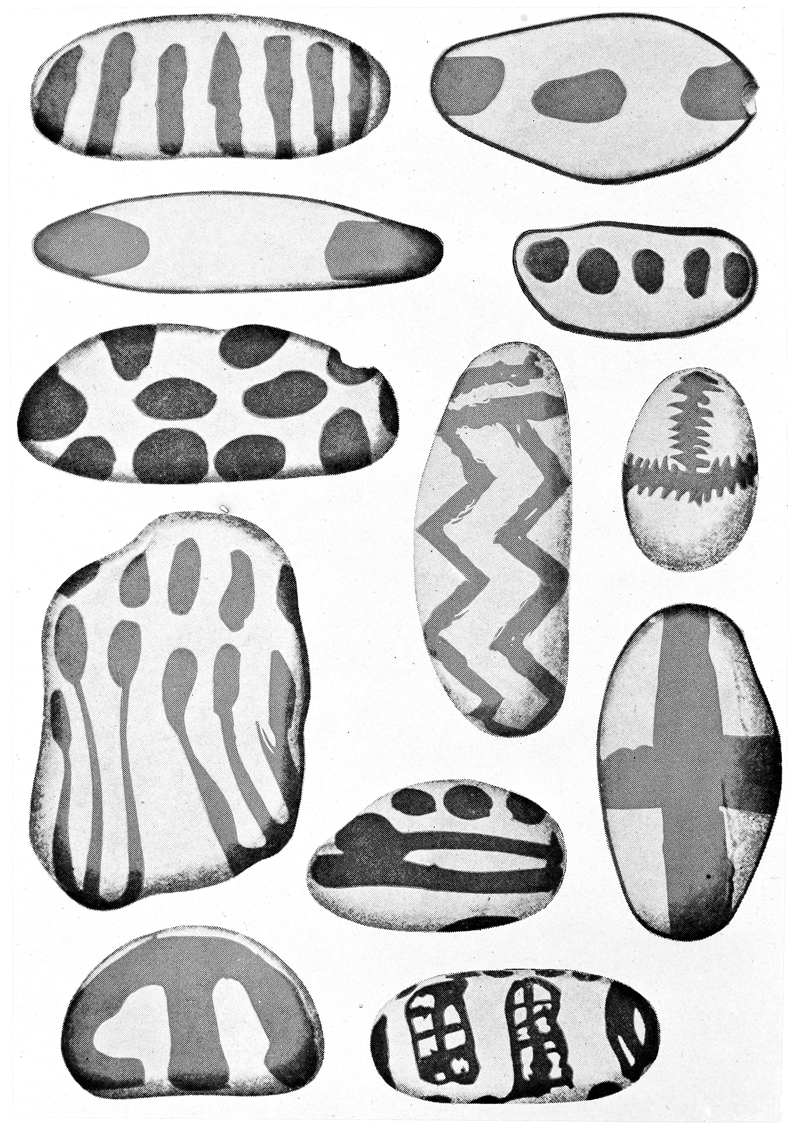 Azilian painted pebbles from the cave of Le Mas d'Azil. After Piette. General Collections Keywords: prehistoric art; Archaeology